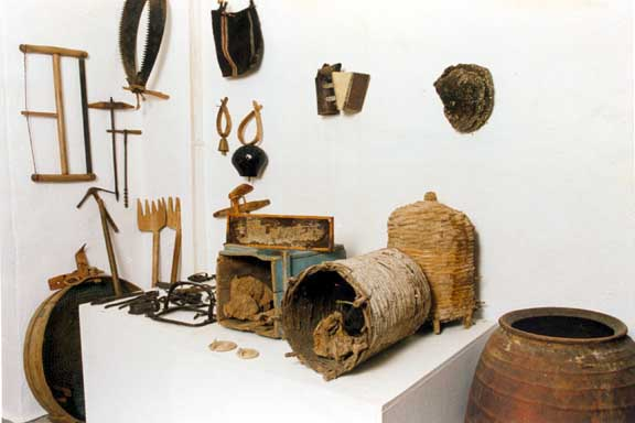 Beekeeping Tools, image from the Folklore Collection, Vavdos, Central Macedonia, Greece